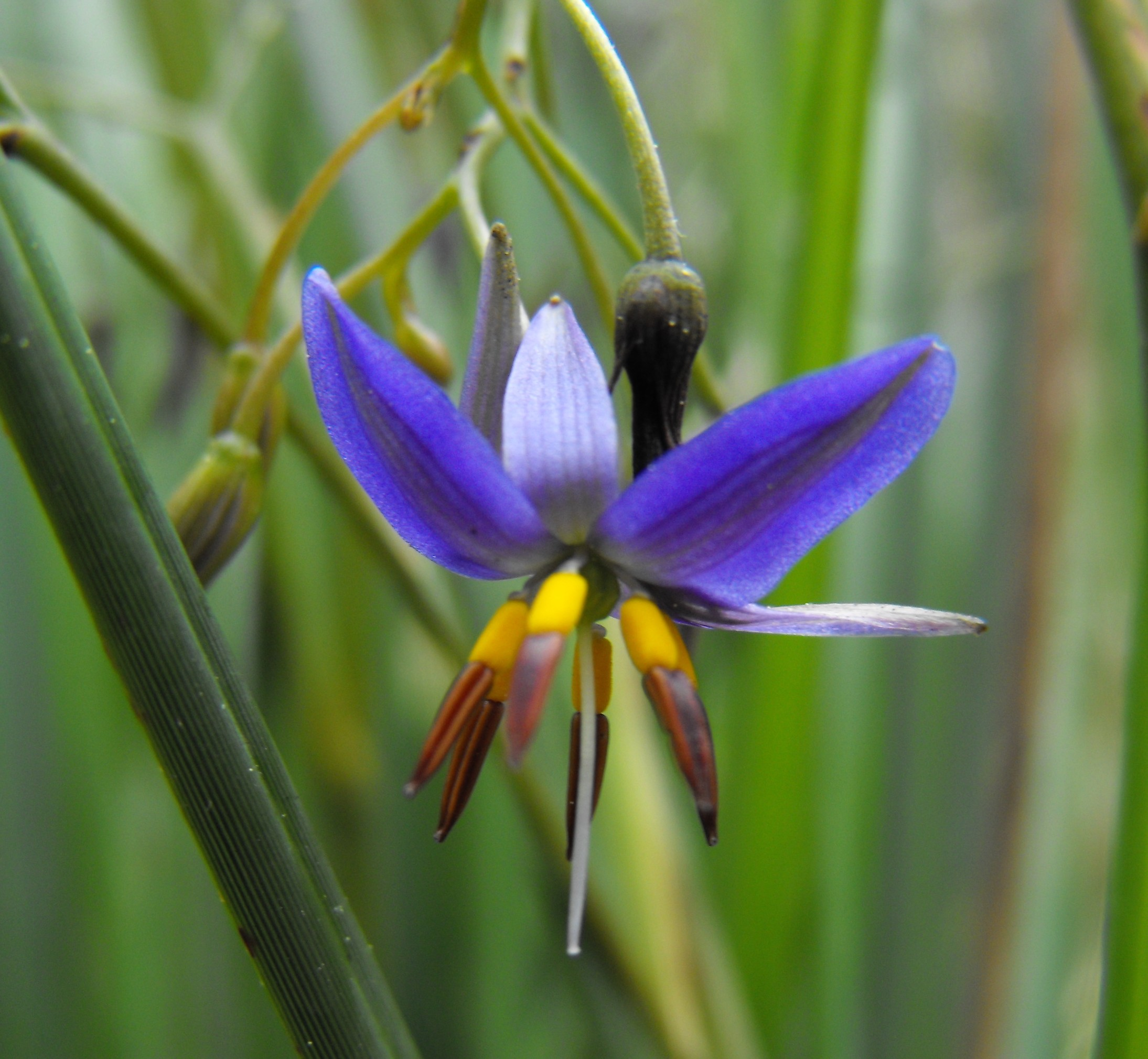 Dianella 'Sea Breeze' at Quail Botanical Gardens in Encinitas, California, USA. Identified by sign.